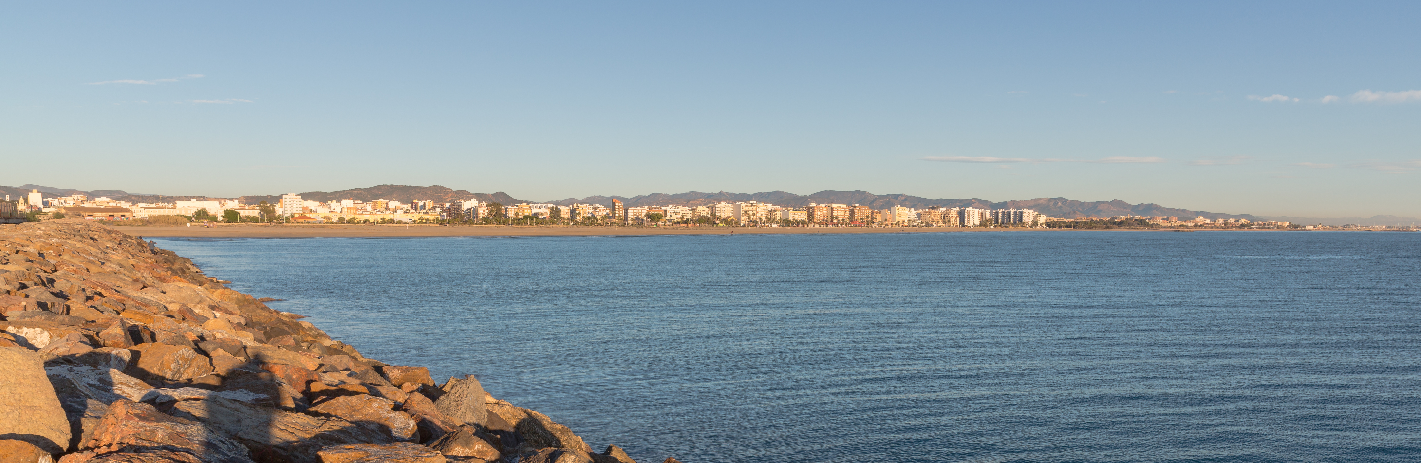 Beach of Port of Sagunto, Spain